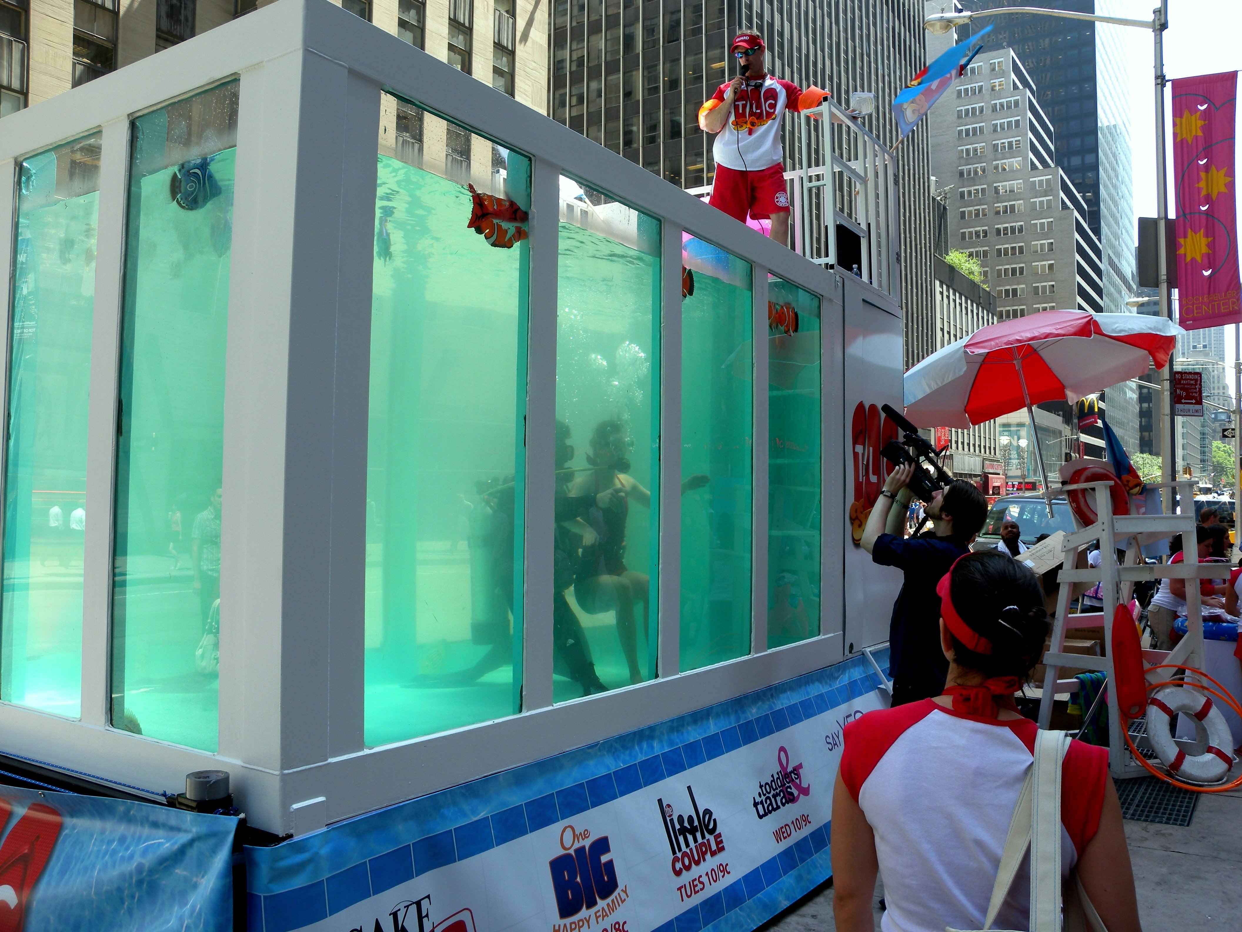 Looking southeast at a shooting session for a The Learning Channel show, on 6th Avenue on a sunny afternoon.